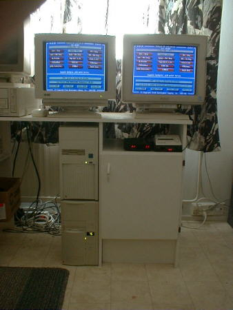 Hardware for running a two-node PCBoard BBS.